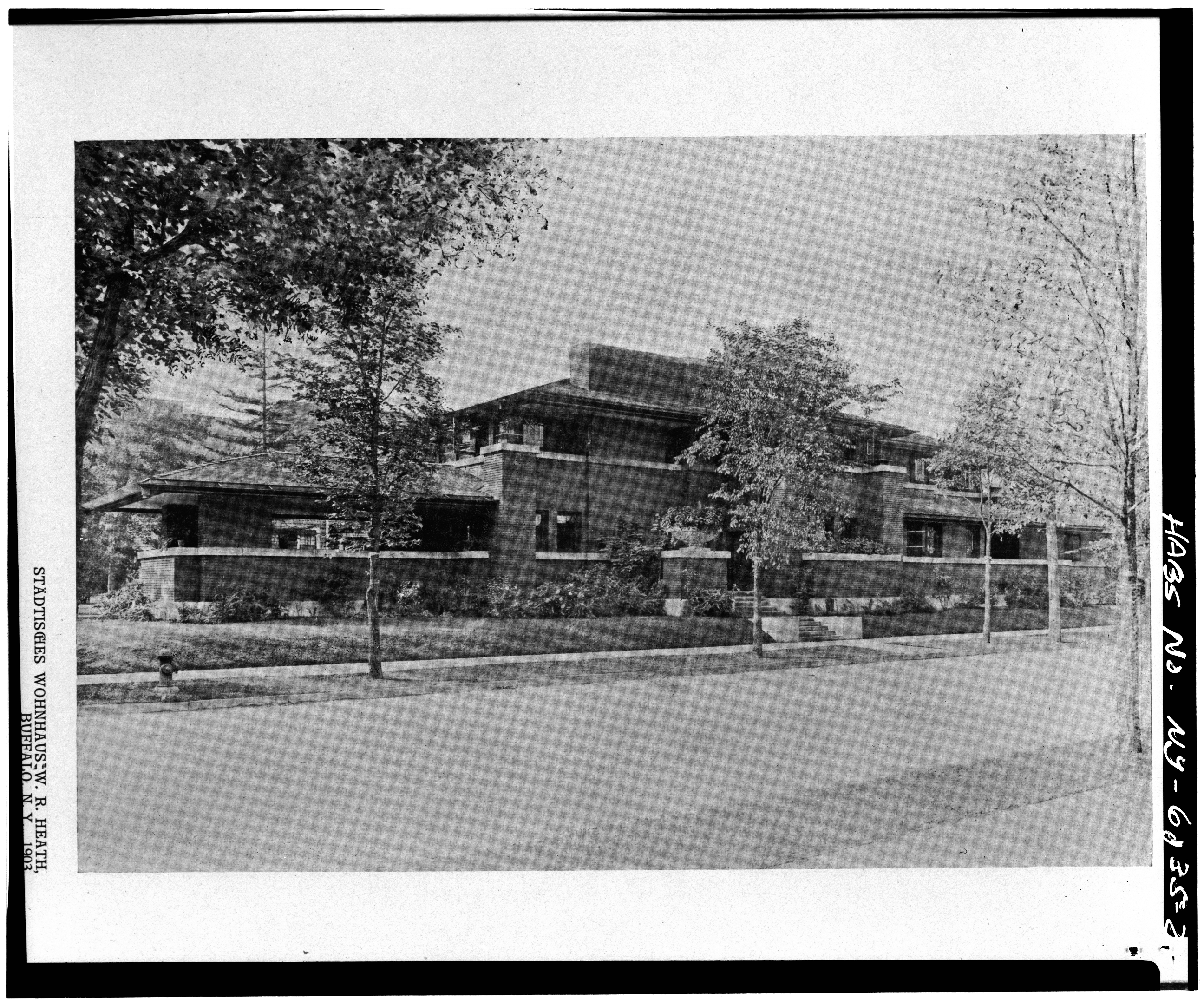 2. PLATE #78, MAIN ELEVATION, VIEW FROM ROADWAY - W. R. Heath House, 76 Soldiers Place, Buffalo, Erie County, NY